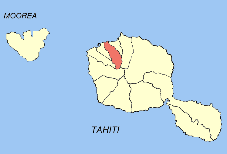 Map of Tahitian communes — Pirae